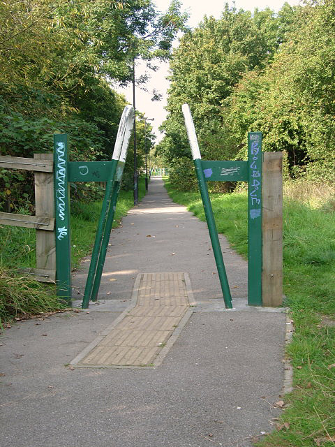 Footpath at Halfway This footpath has been upgraded as part of the development of a new housing estate in this area.